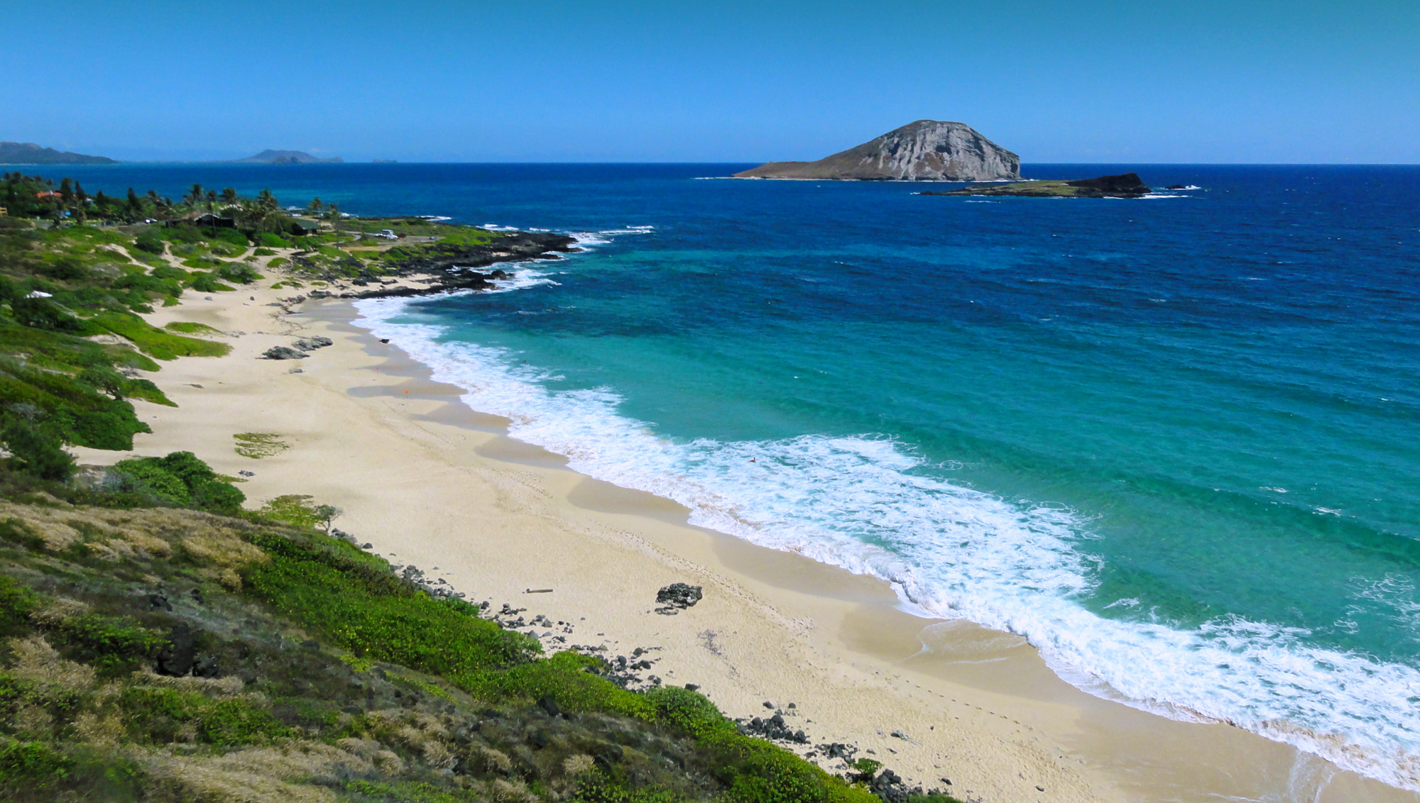 Makapuʻu Beach, Oahu, Hawaii